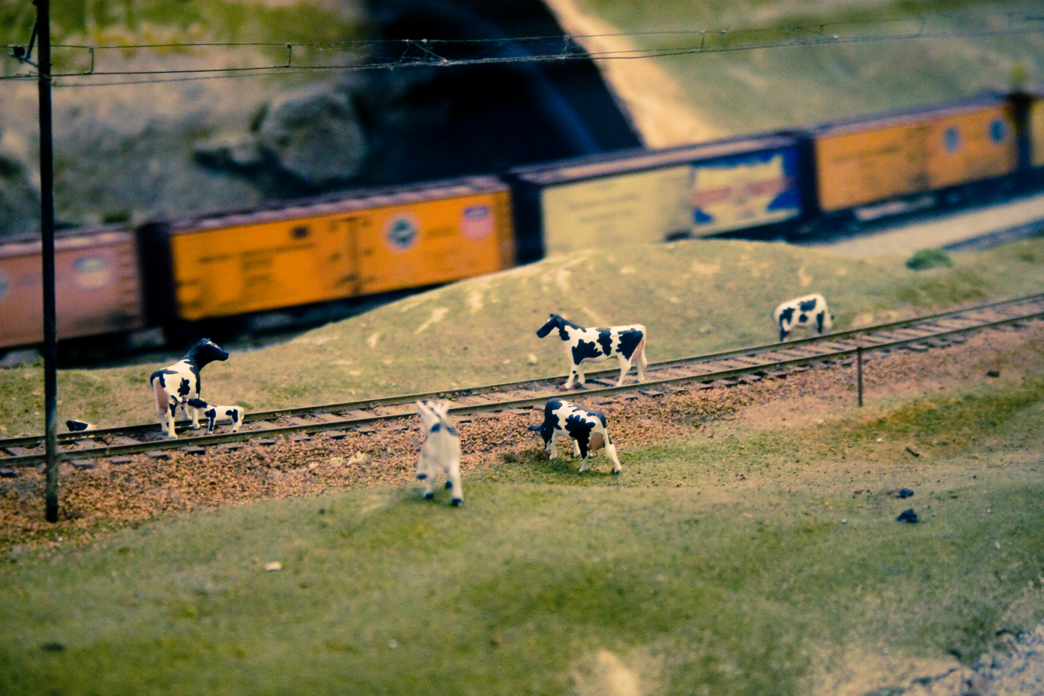 A scene from the Golden State Model Railroad Museum.